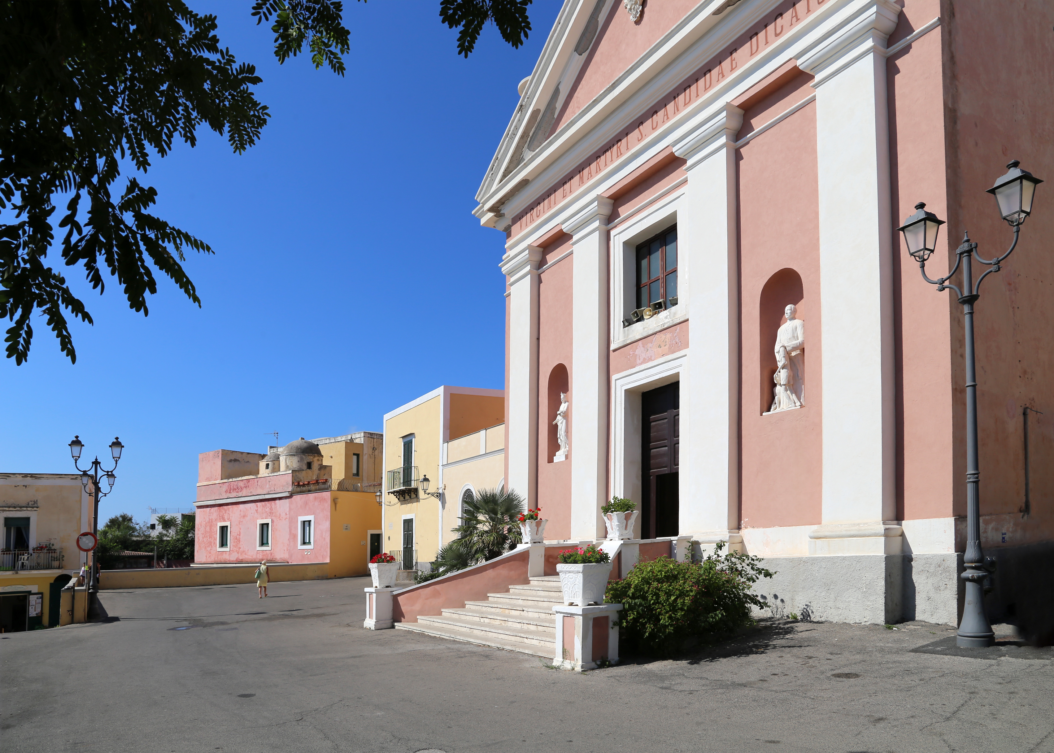 Ventotene